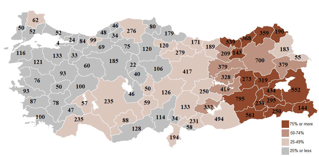 The percentage of renamed place names in Turkey by province based on Sevan Nişanyan's Adını unutan ülke: Türkiye'de adı değiştirilen yerler sözlüğü (2010, Everest Yayınları, Istanbul) p. 52